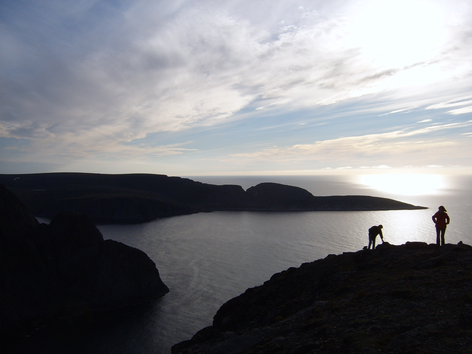 Nordkapp Personal picture, july 2005